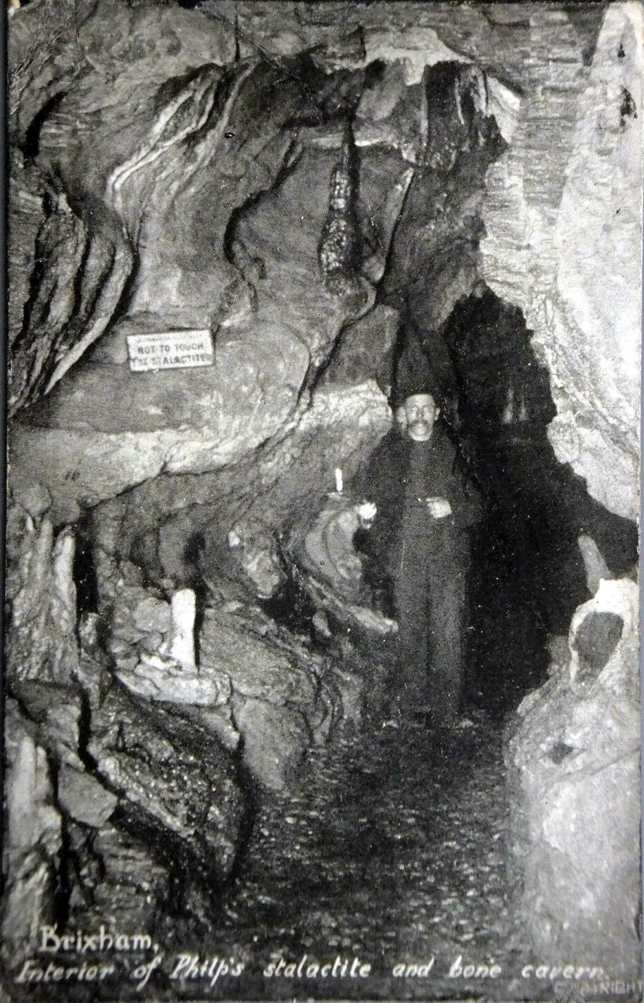 A postcard of Windmill Hill Cavern in Brixham, Devon when it was a show cave. The photograph pre-dates 1906.